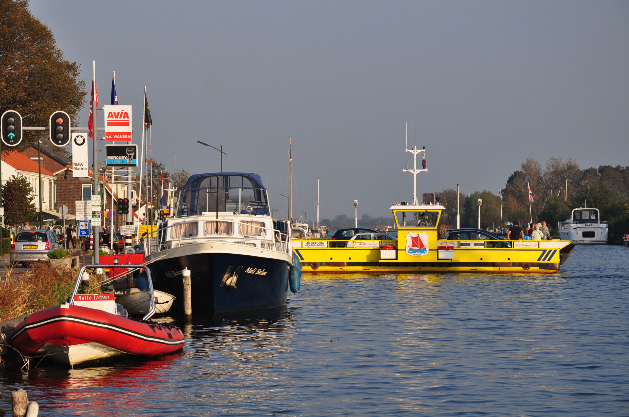 The car ferry between Buitenkaag in the Haarlemmermeer Polder (left shore) and the village of Kaag, located on an island in the Kaag Lakes (not visible on the picture); municipality Kaag en Braassem, Province South Holland, Netherlands.